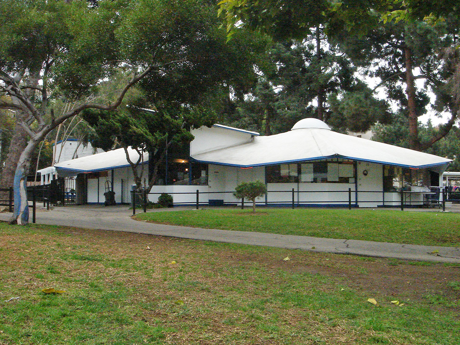 The school had these modernist huts aside of barrack-like additional rooms.